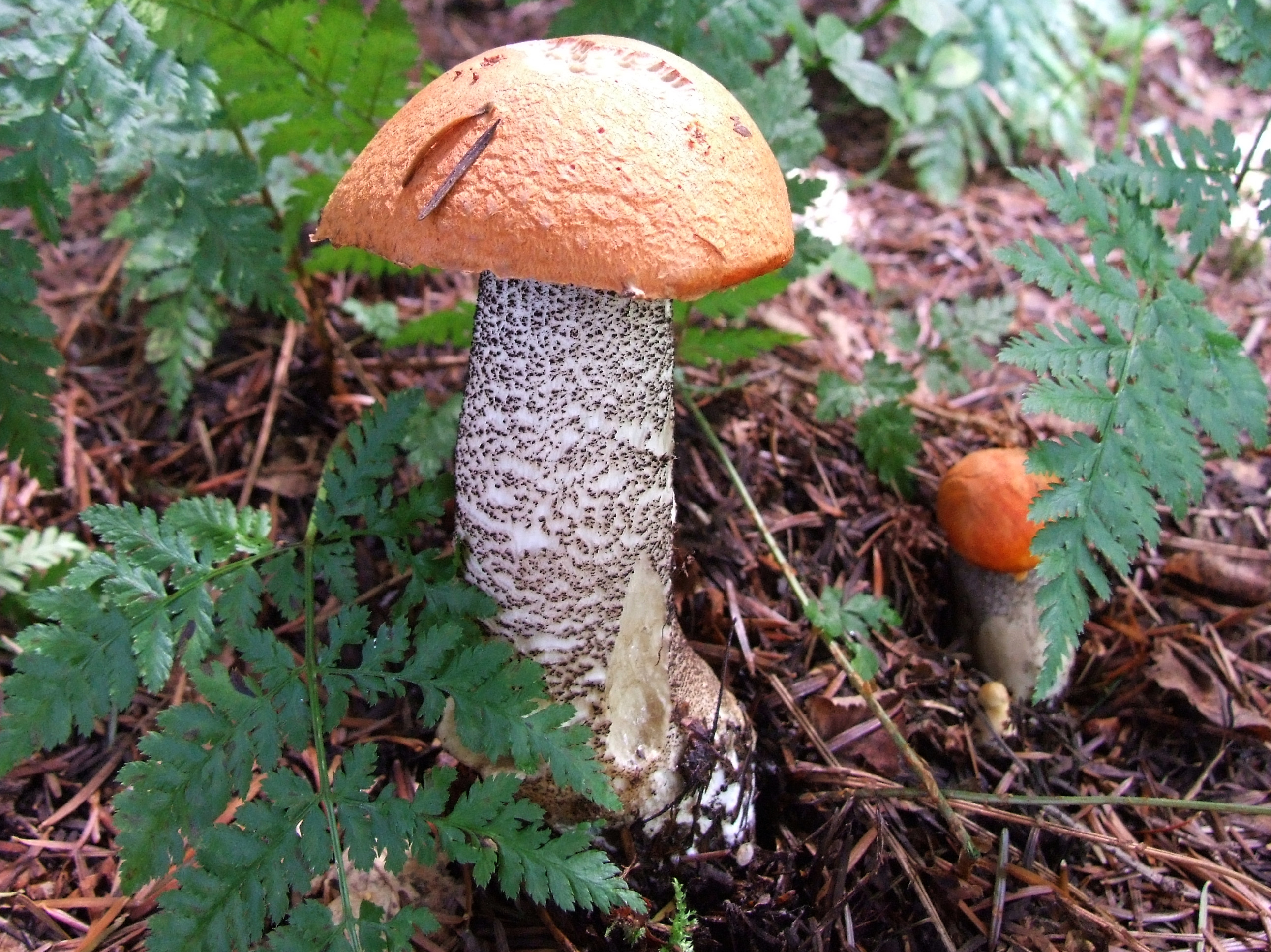 Leccinum piceinum on Picea sylvestris (location: Poland, Gorce, Jaworzyna Kamienicka)